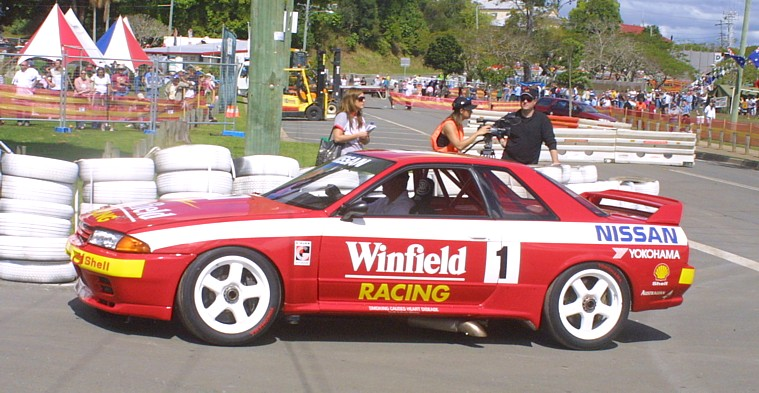 Bathurst winning Nissan GT-R driven by Mark Skaife and Jim Richards. This shot taken at 2006 Speed on Tweed.